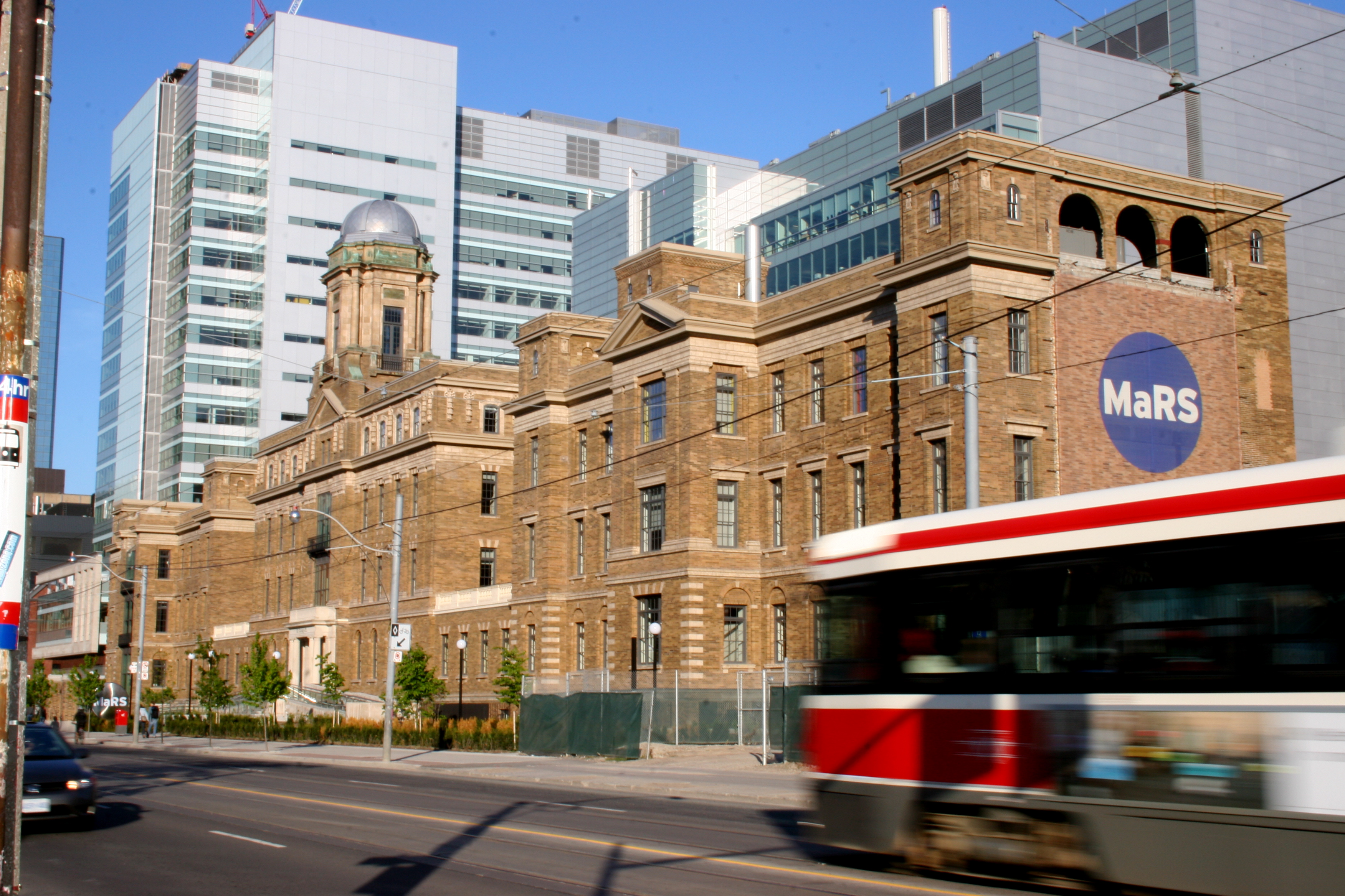 1. Image source: Christie Spicoluk 2. In response to an e-mail request (forwarded to ) Ms. Spicoluk agreed to release the image under the GFDL Link to OTRS permission